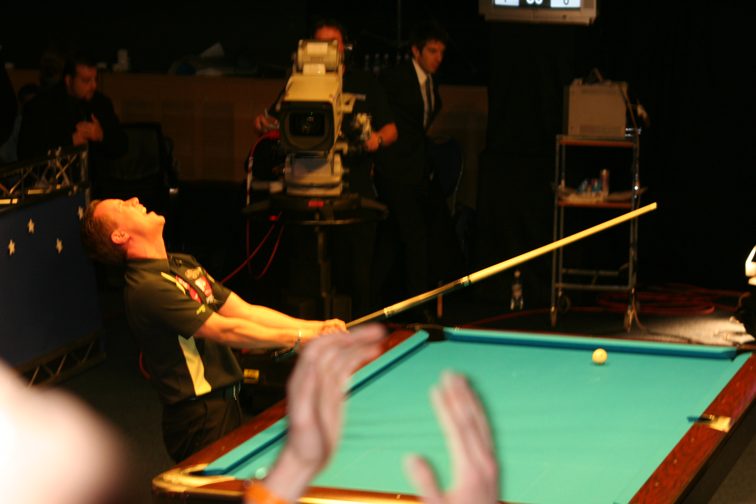 Finish pool player Mika Immonen while he potted the last ball for Europe's win at the Mosconi Cup 2008 in Malta.